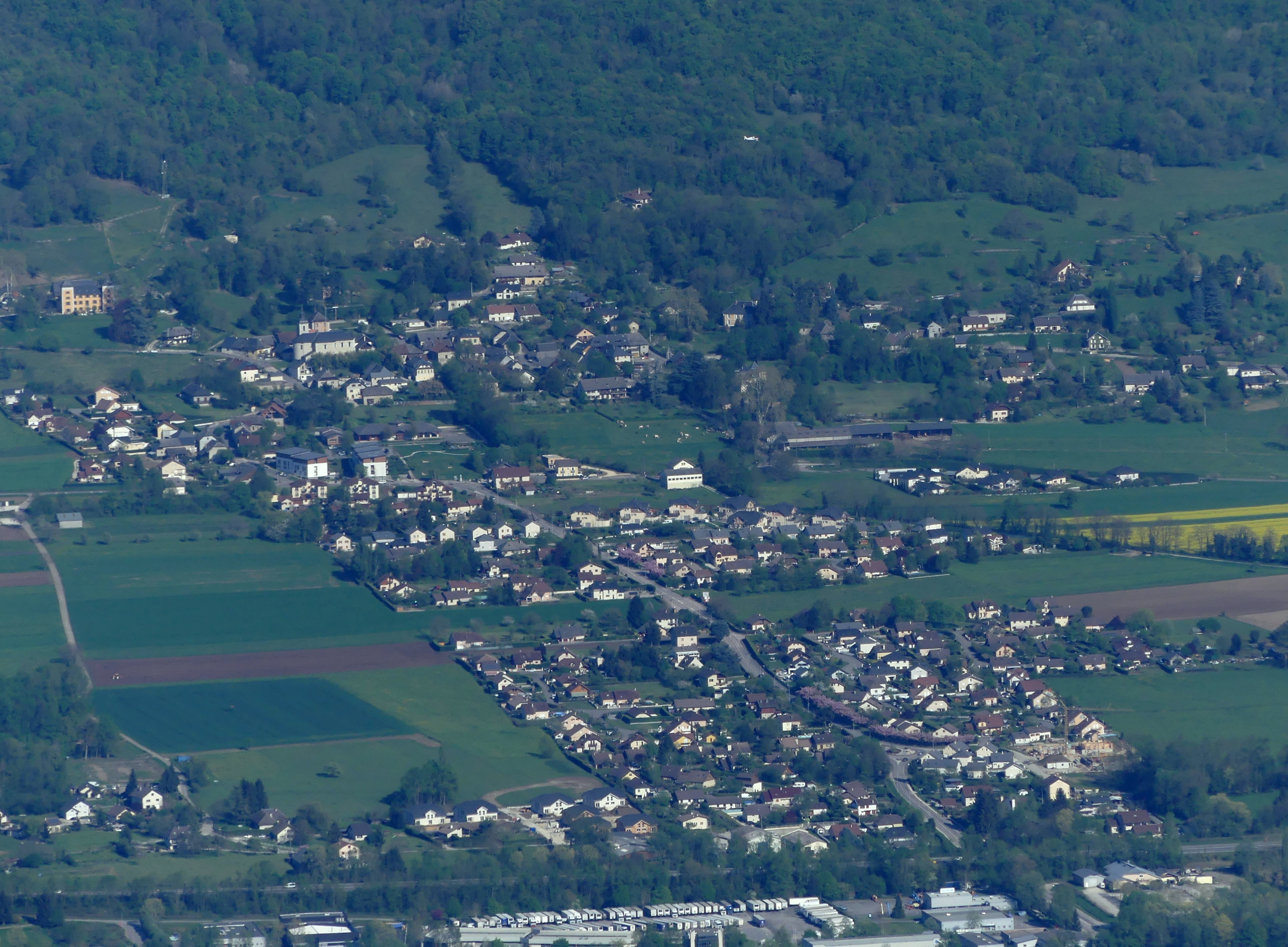 Sight, from the top of the Mont du Chat mountain (1,500 meters high), of Méry locality, near between Chambéry and Aix-les-Bains, in Savoie, France.